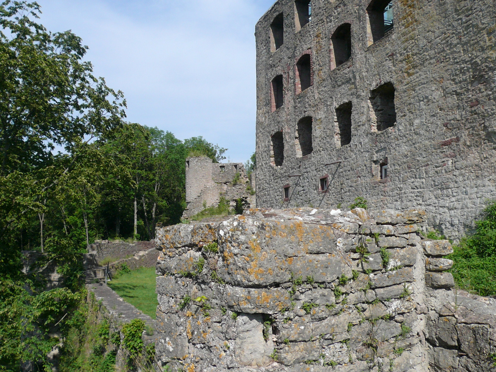 Trimburg, Germany - Northfront